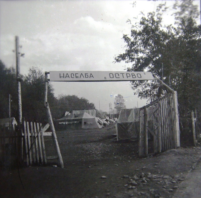 1963 Skopje earthquake: Tent settlement, Ostrovo This media file is produced by Wikipedian in Residence in Category:Wikipedian in Residence at DARM in 2016.